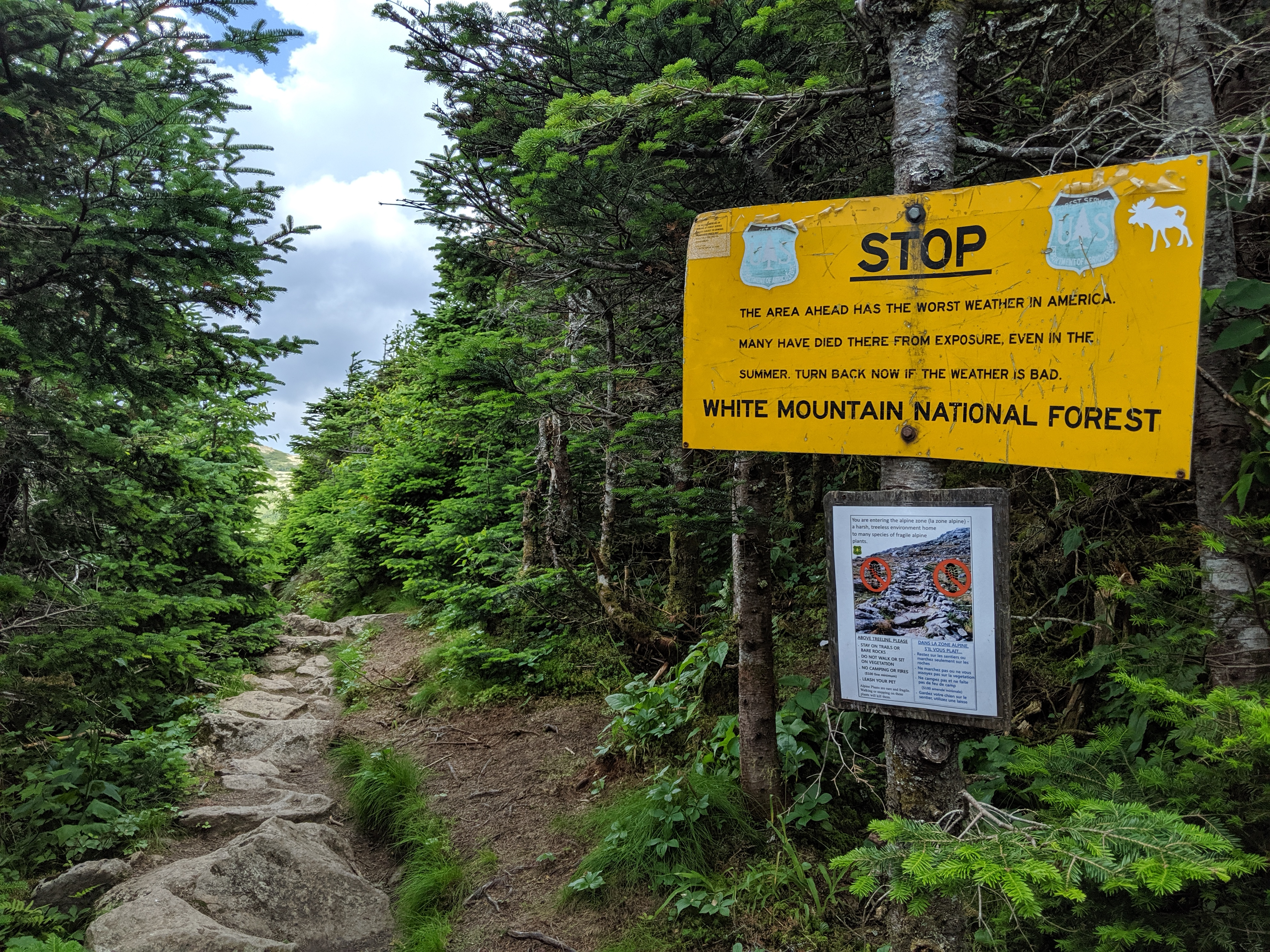 Sign posted by the US Forest Service in the Presidential Range of the White Mountain National Forest warning of the dangerous conditions beyond. Weather conditions above the tree line can often be the worst in the United States.